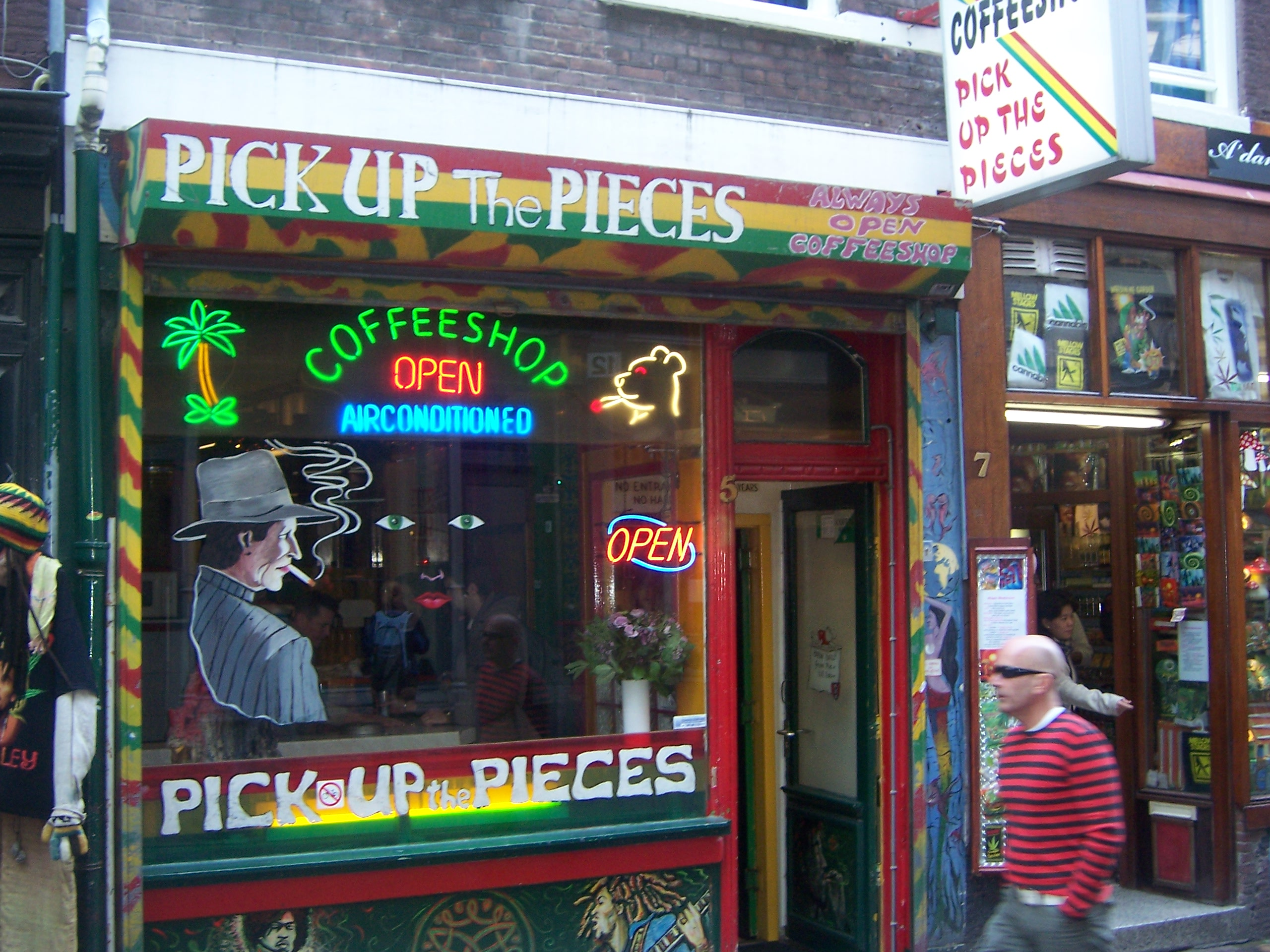 Coffeshop Pick Up The Pieces, Oude Hoogstraat 5, Amsterdam. One of the many coffee shops in Amsterdam